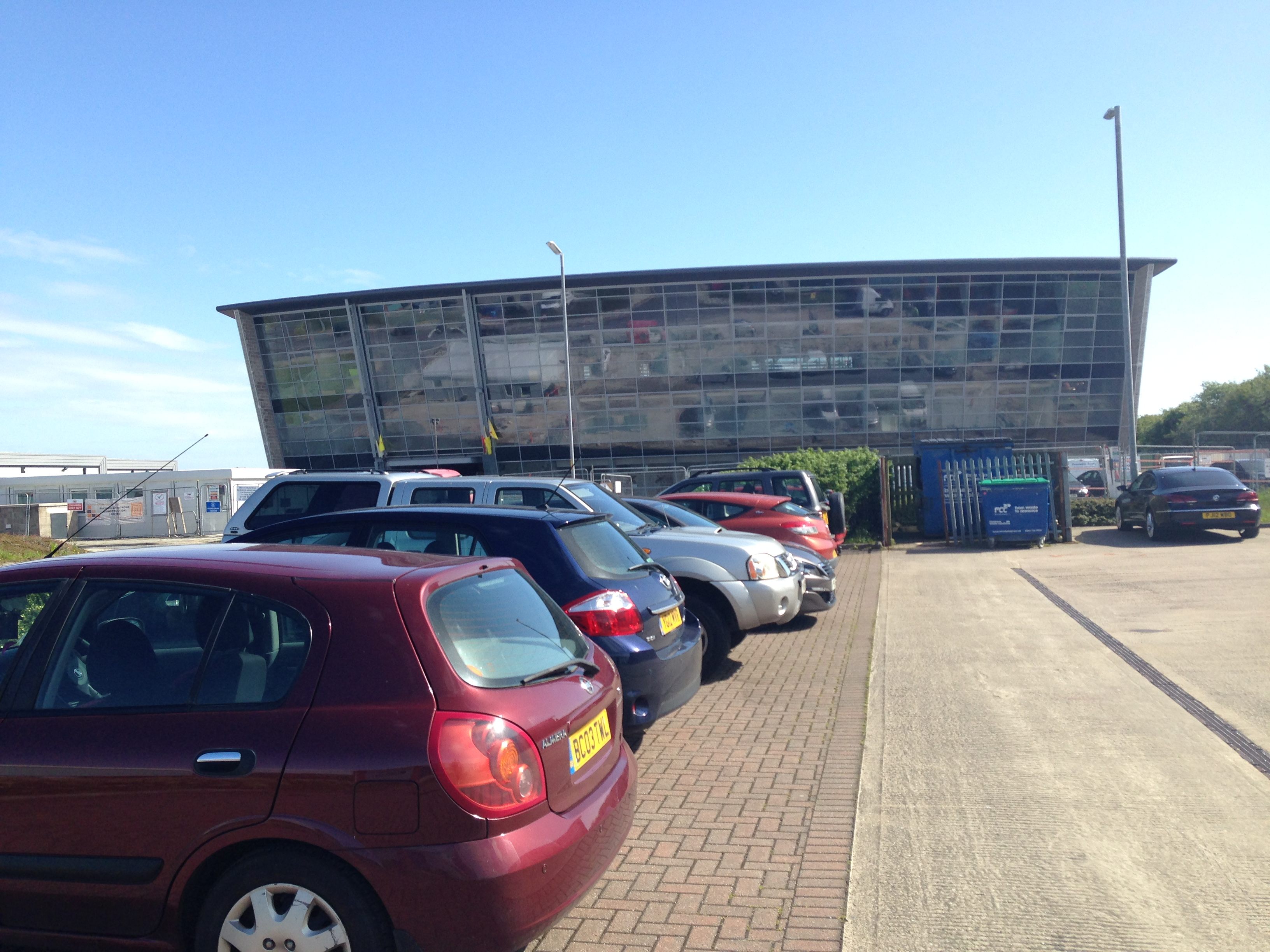 Barrow Police Station on James Free Close under-construction in June 2015